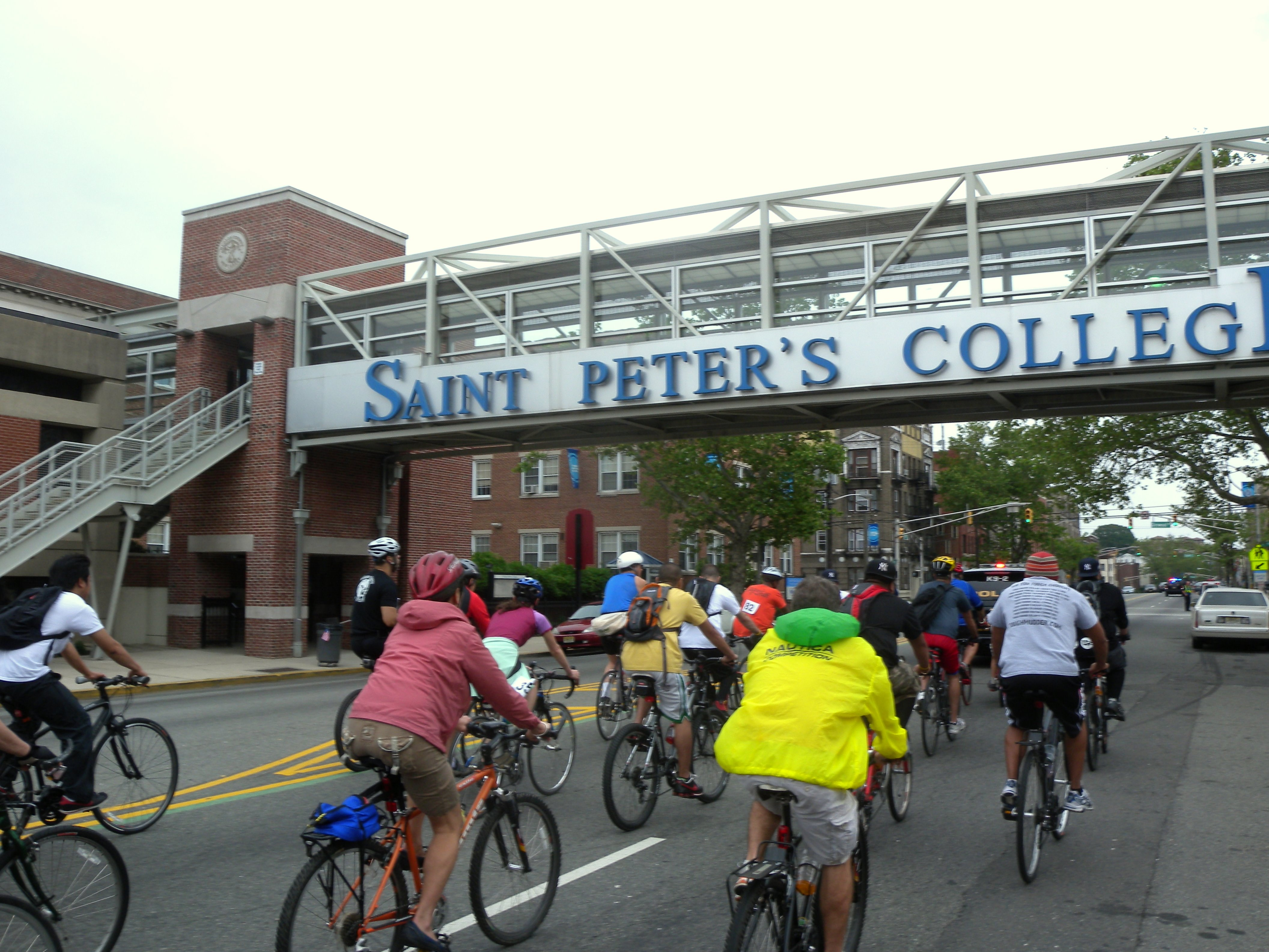 Looking north along JFK Blvd at college overpass on a cloudy midday.